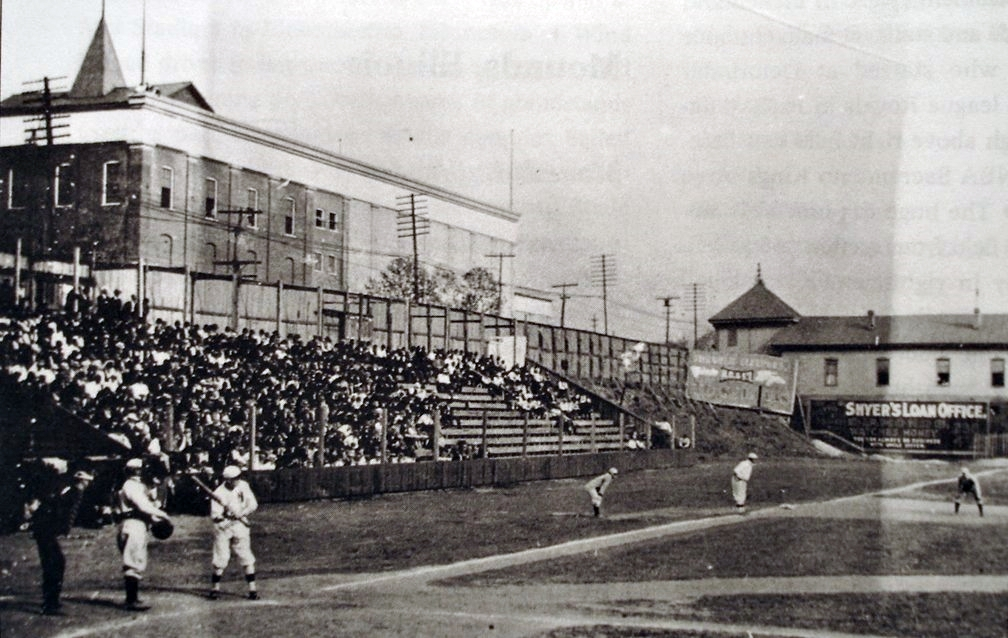 A baseball game in 1908 at Sulphur Dell, a minor league baseball park in Nashville, Tennessee